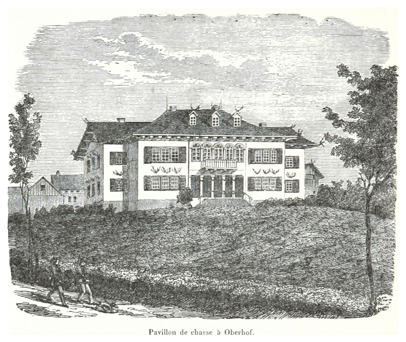 Image extracted from page of 406 Dans la Forêt de Thuringe. Voyage d'étude (1862) by Édouard Humbert. Original held and digitised by the British Library. Copied from Flickr. Note: The colours, contrast and appearance of these illustrations are unlikely to be true to life. They are derived from scanned images that have been enhanced for machine interpretation and have been altered from their originals.